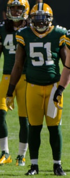 San Francisco 49ers vs. Green Bay Packers at Lambeau Field on September 9, 2012. Photo by Mike Morbeck.